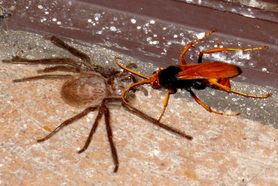 A Western Australian spider wasp or pompilid has anaesthetised a large huntsman spider.